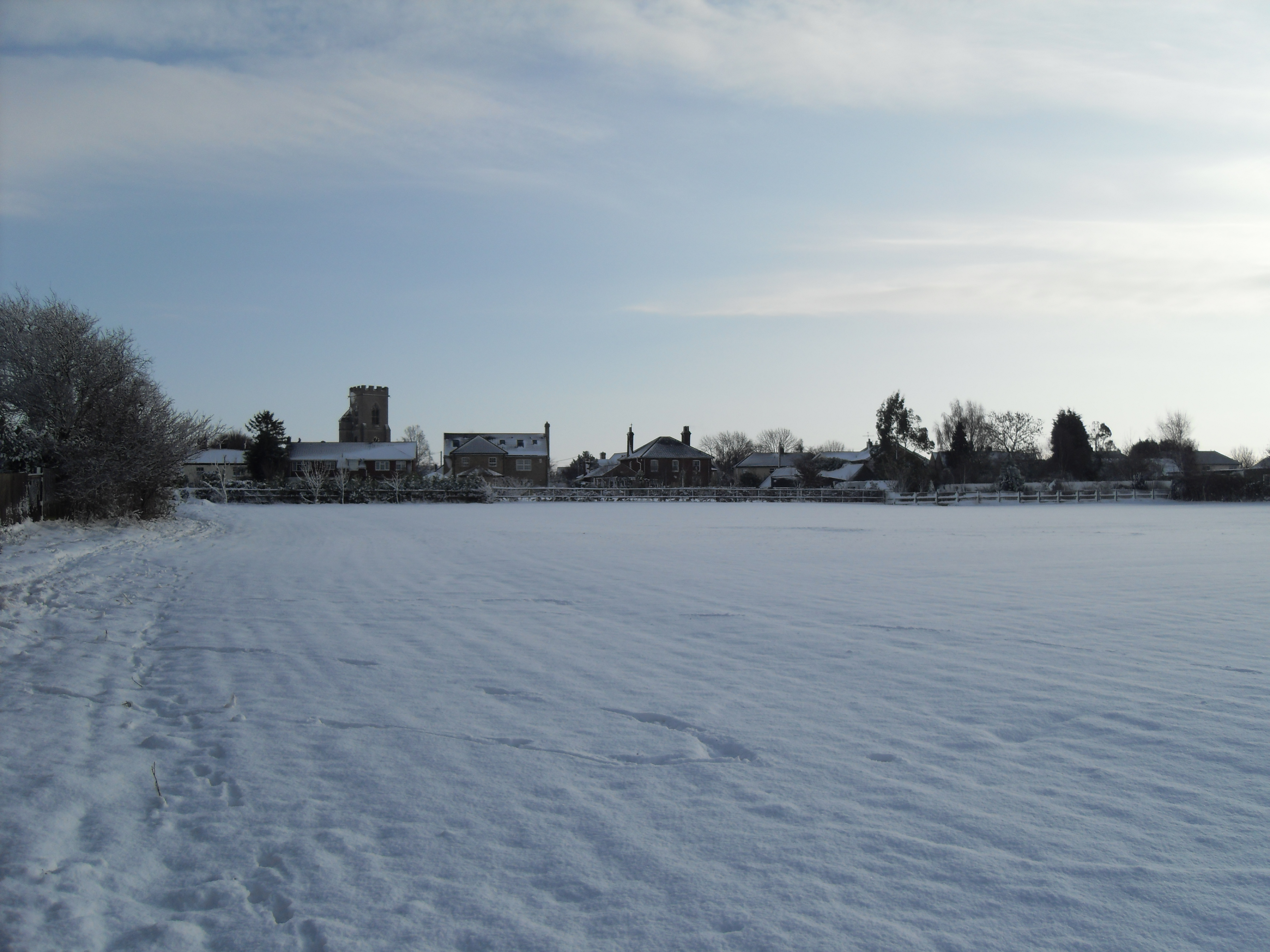 Dunton on a snowy winters day - 18-12-2009